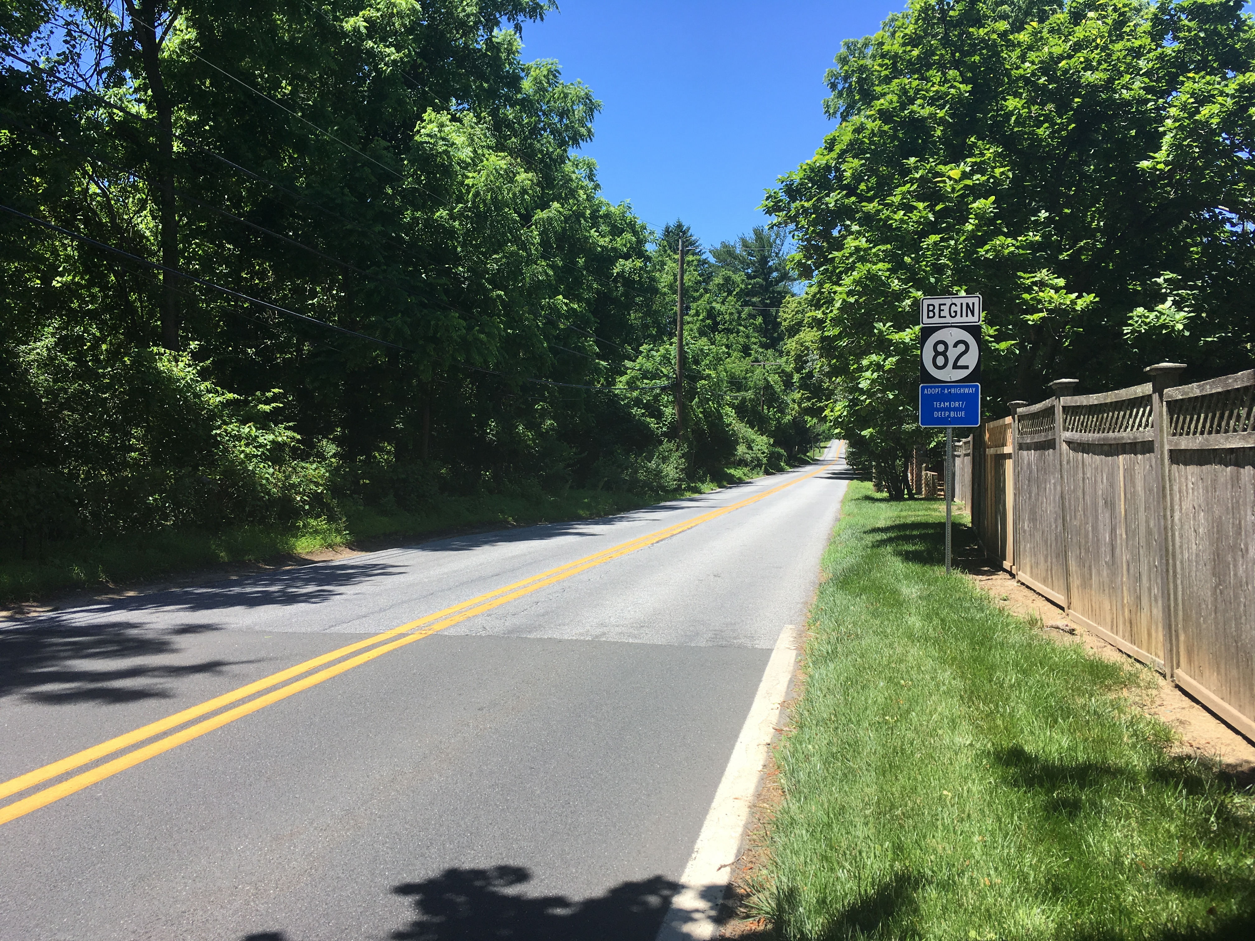 Northbound Delaware Route 82 (Campbell Road) past its southern terminus at Delaware Route 52 (Kennett Pike) near Greenville, Delaware